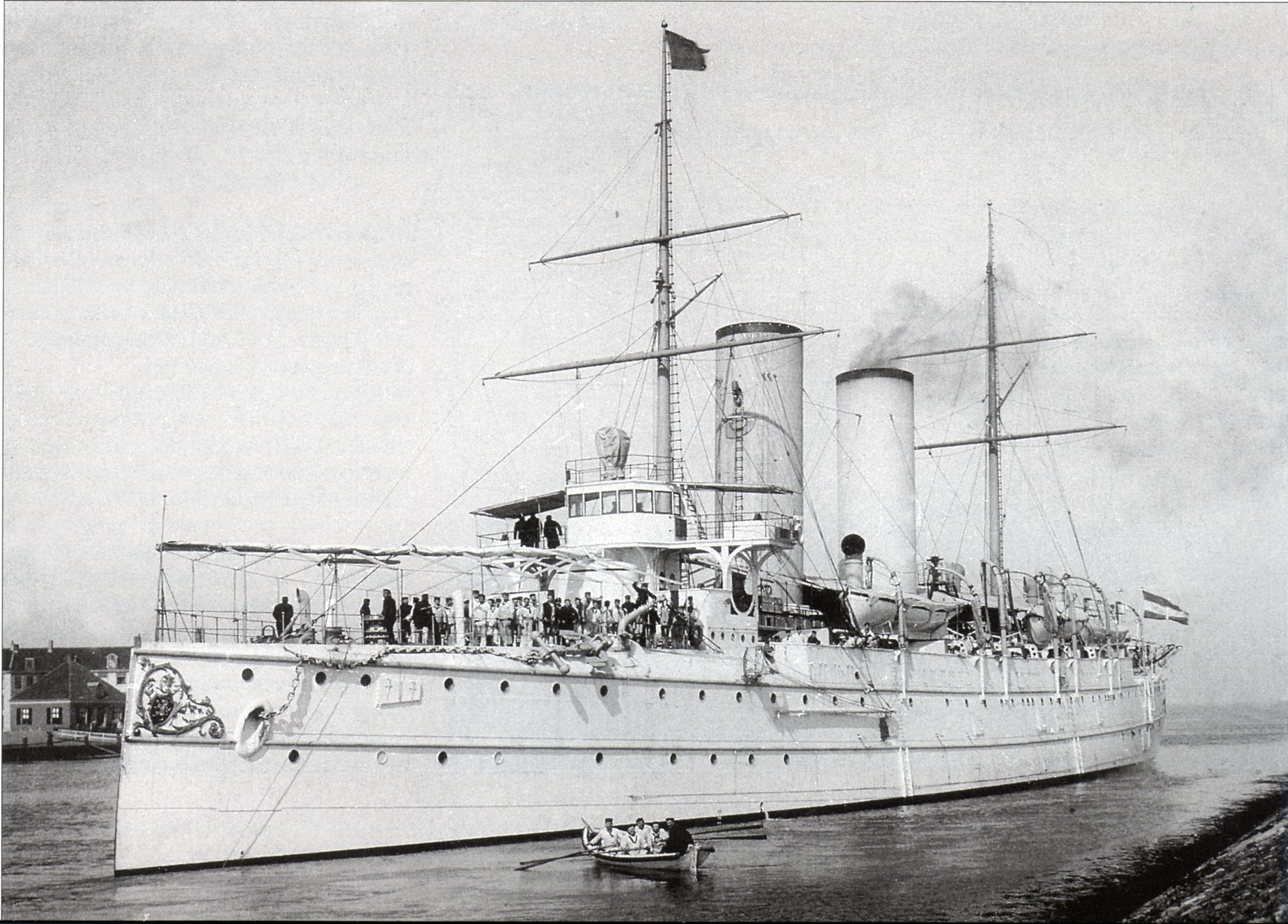 Dutch protected cruiser Noord-Brabant as accomadation schip